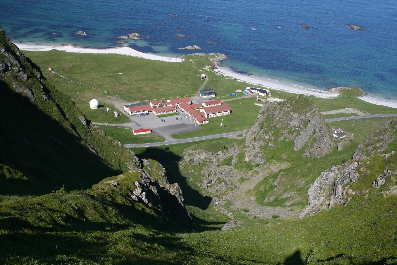 Andoya rocket center.